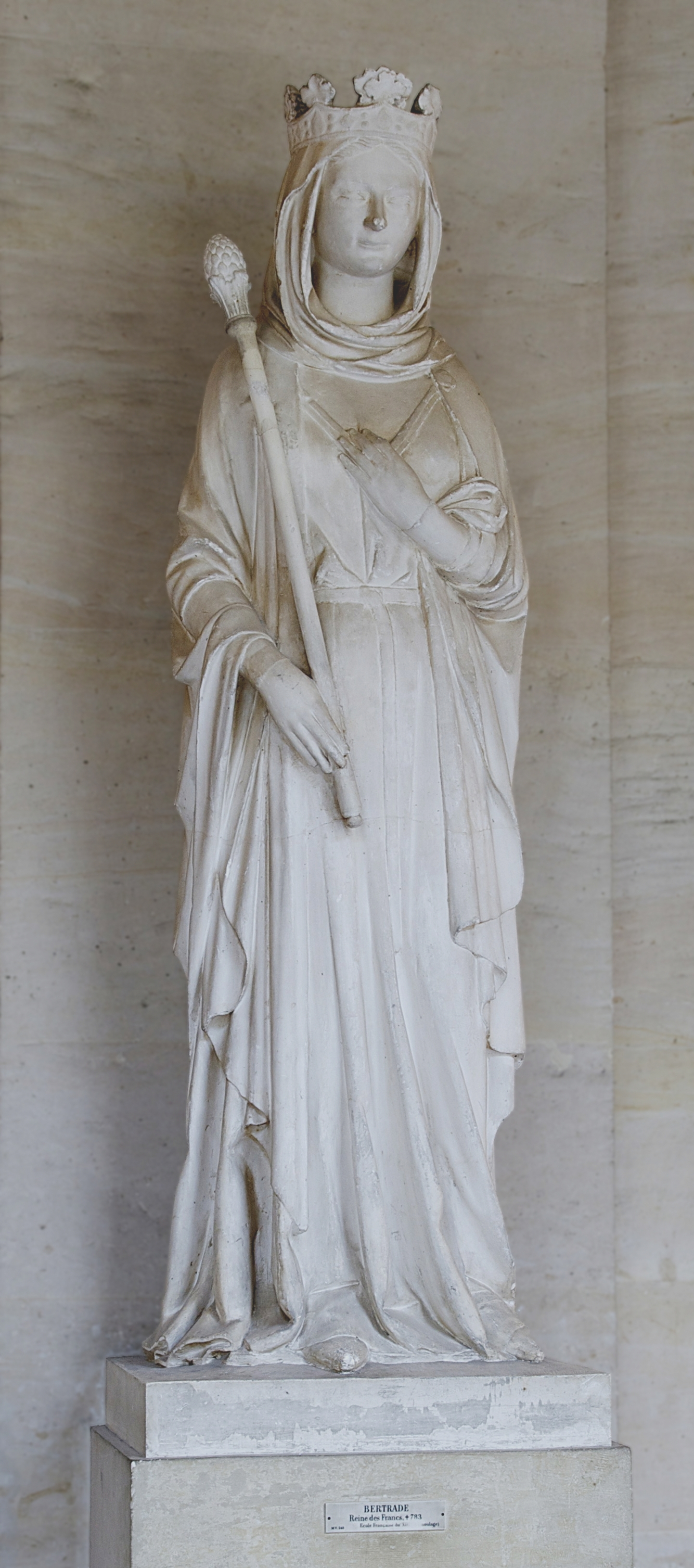 Bertrada Broadfoot of Laon, Queen of the Franks. 19th century's cast of a statue of the 13th century. Plaster. Galerie de Pierre, northern wing, Château de Versailles.